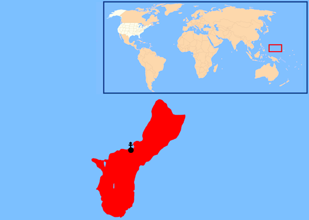 The Catholic Archdiocese of Agaña encompasses the entire territory of Guam, USA.